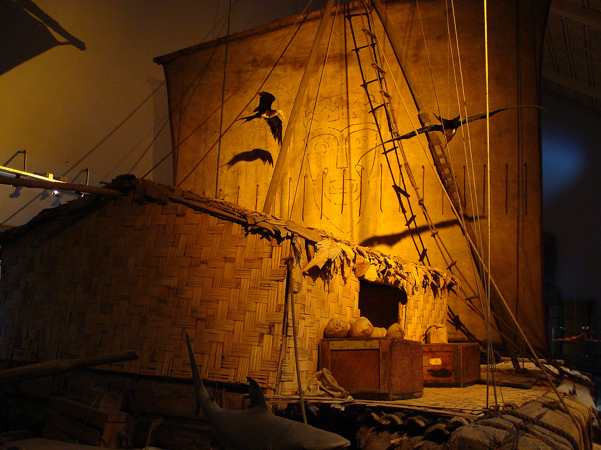 Kon-Tiki raft exhibited at Oslo Museum